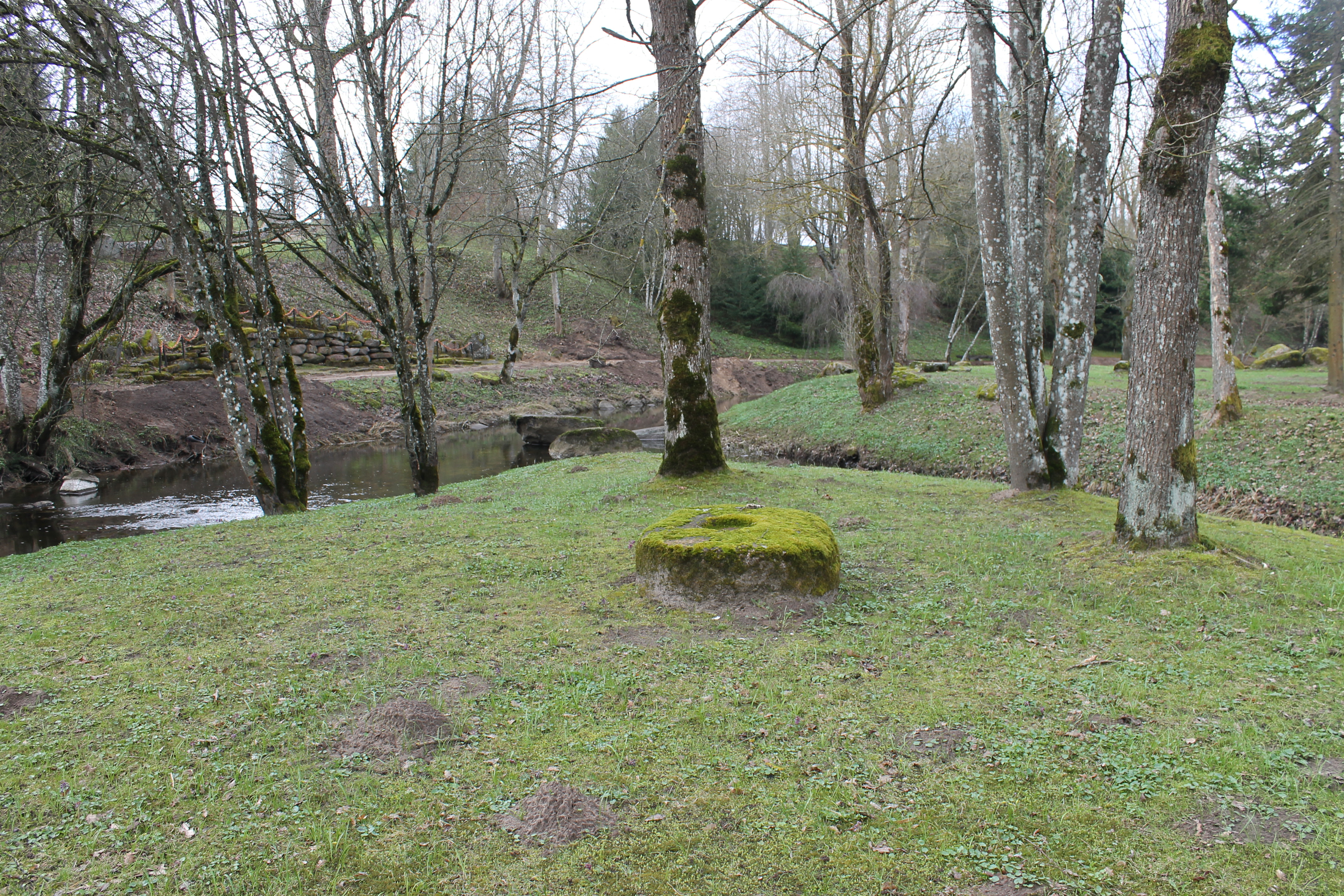 Mosėdis stone, Skuodas district, LithuaniaLietuvių: Mosėdžio II apeiginis akmuo, Skuodo rajonas, Lietuva